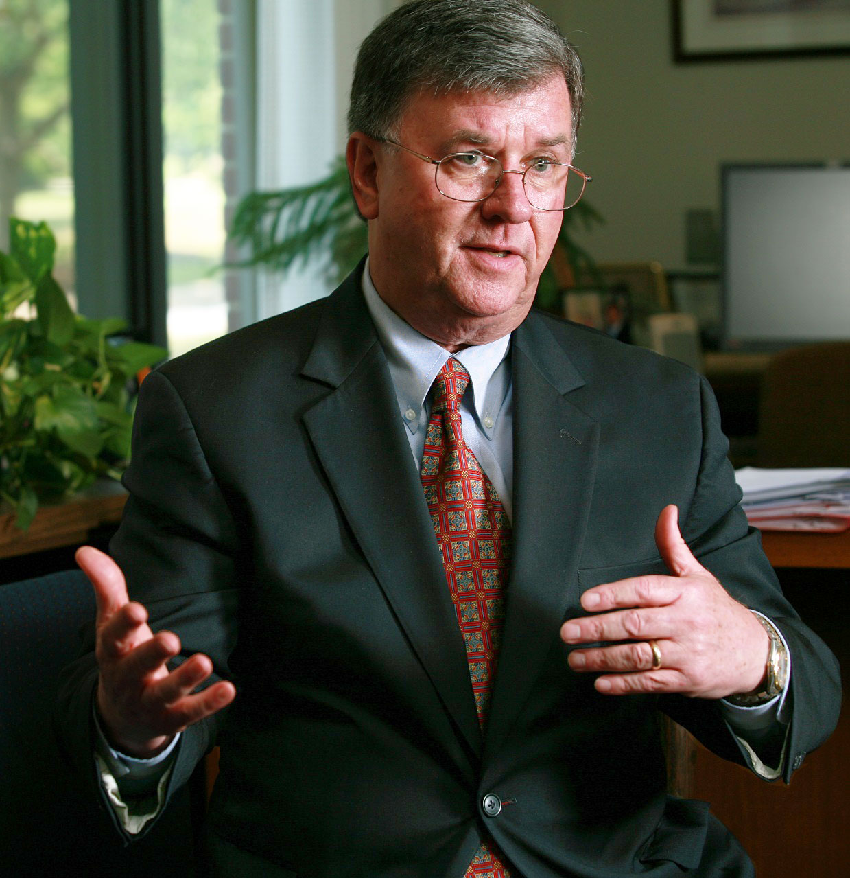 Manning